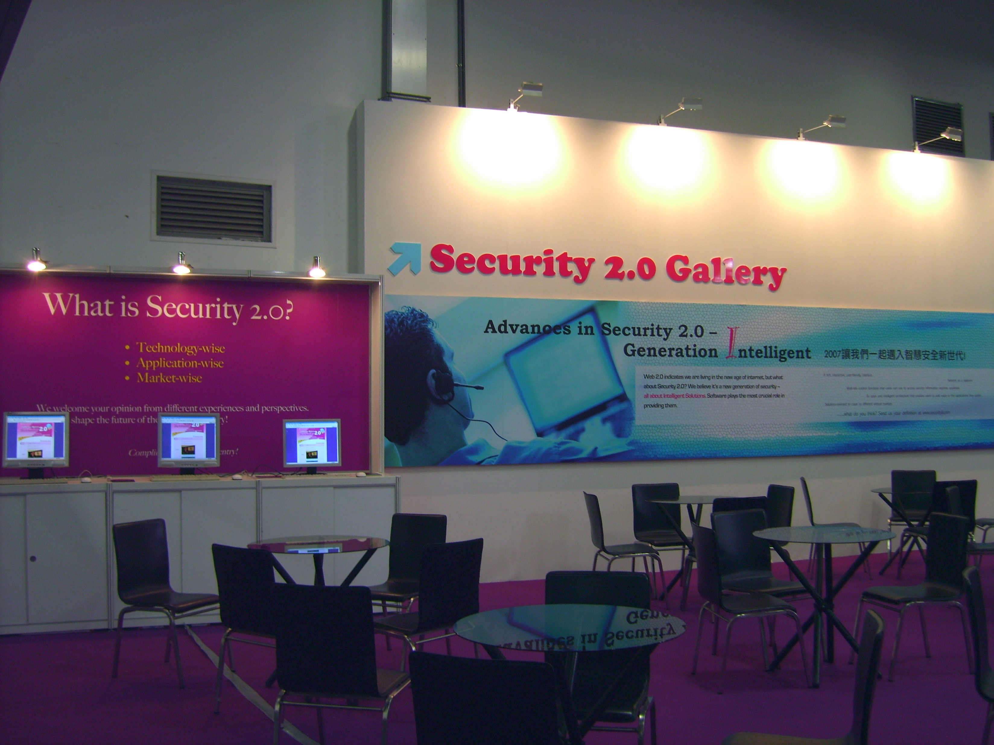 2007 SecuTech Expo: Security 2.0 Gallery Pavilion.